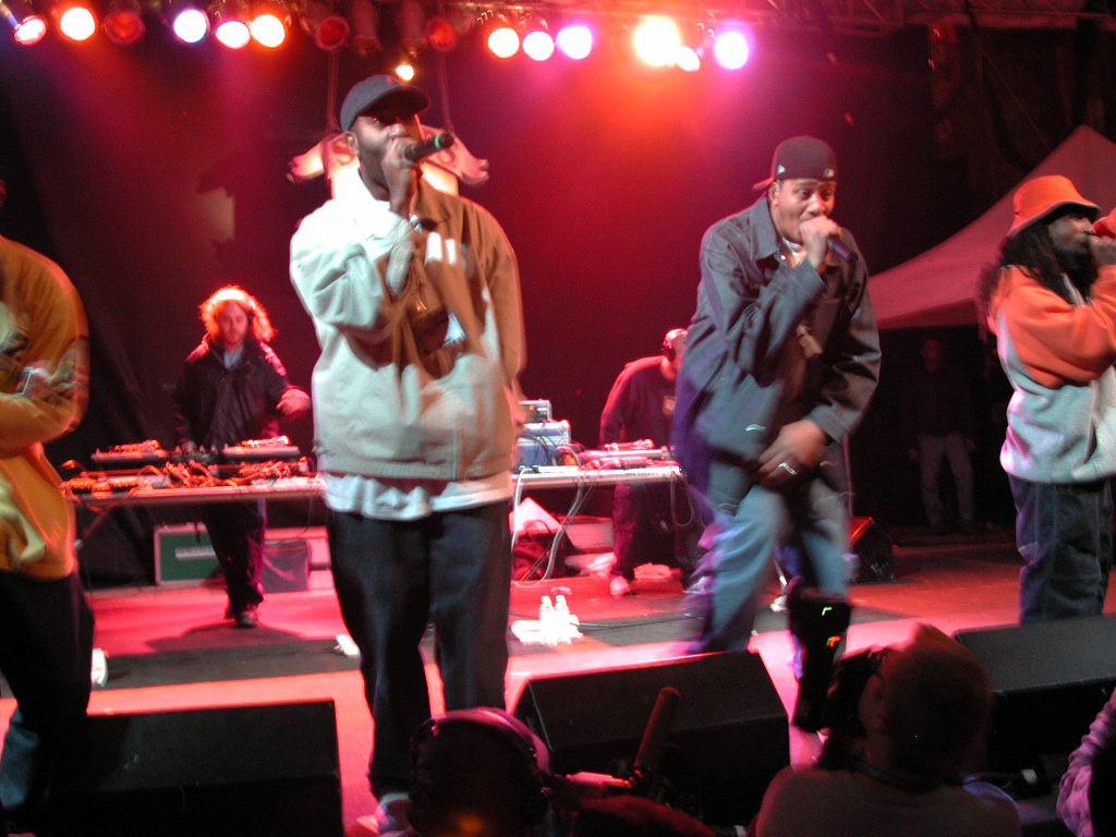 Jurassic 5